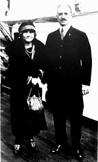 Photo of Helen Rogers Reid and Ogden Mills Reid, owners of the New York Tribune, ca. 1920.